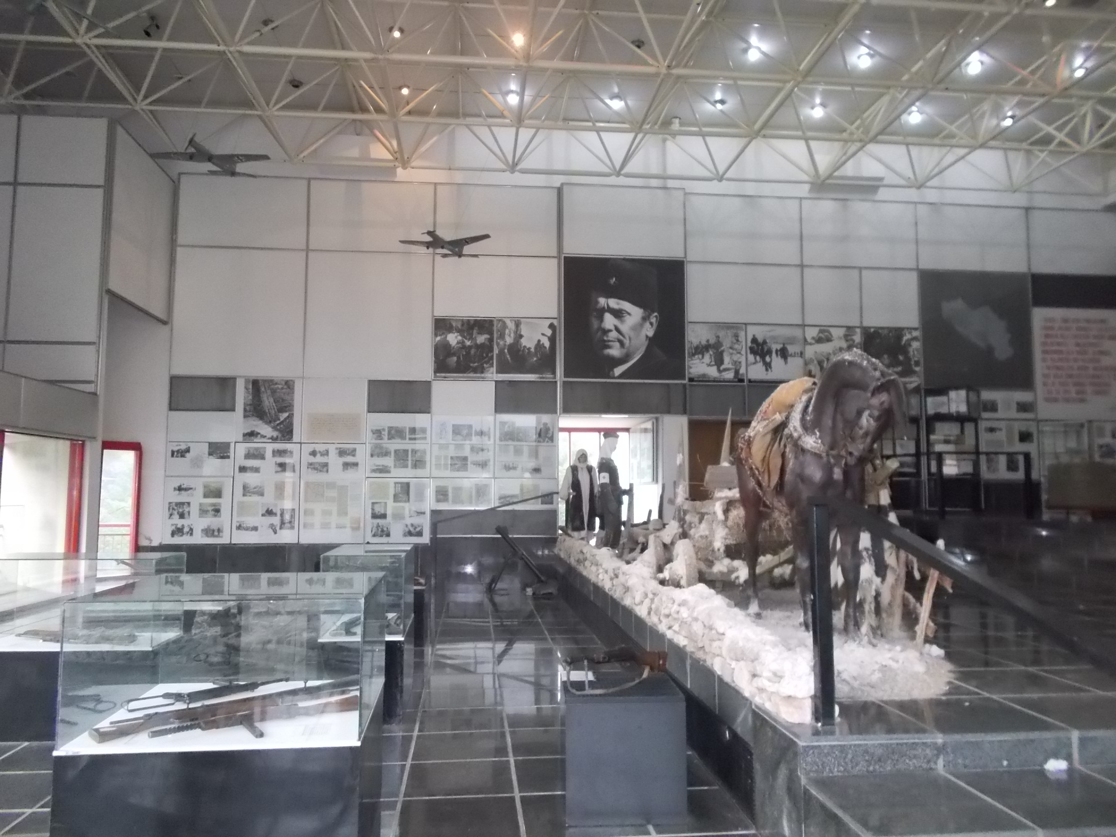 Interior of the Museum of the Battle for the Wounded in jablanica, Bosnia and Herzegovina.